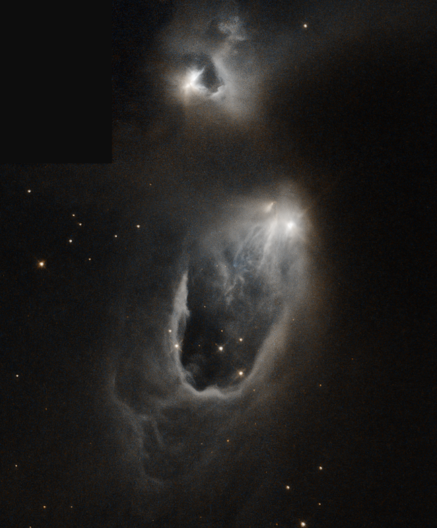 Kind of an odd composition and there's a chunk missing from the upper left corner but I couldn't pass up another cloudy star scene. Red: hst_08216_69_wfpc2_f814w_wf_sci Green: Pseudo Blue: hst_08216_69_wfpc2_f606w_wf_sci North is NOT up, it's 25.7° counter-clockwise from up.